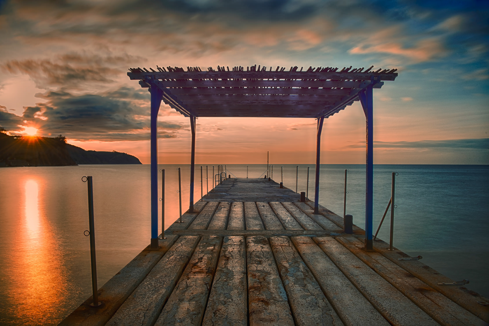 Izola Simoniv zaliv